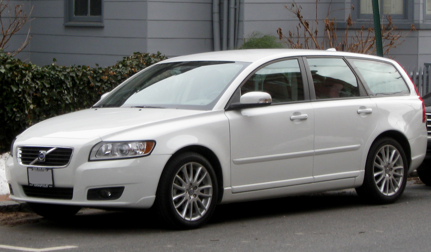 2008-2010 Volvo V50 photographed in Annapolis, Maryland, USA.